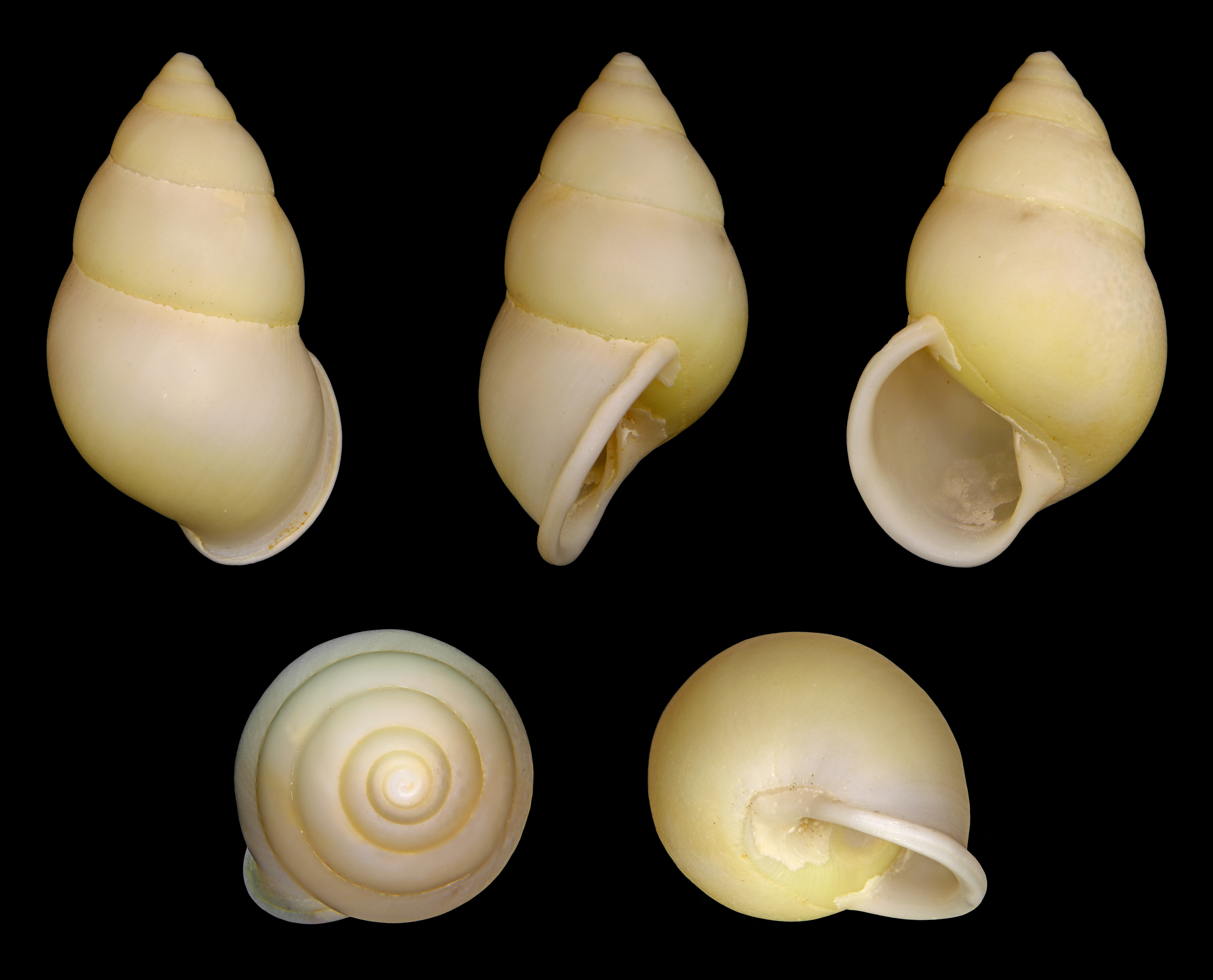 Length 4.3 cm; Originating from Khao Lak, Thailand; Shell of own collection, therefore not geocoded. Dorsal, lateral (right side), ventral, back, and front view.